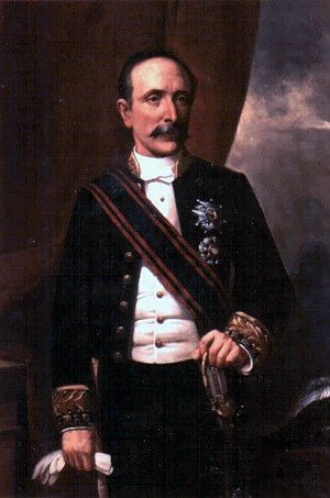 Francisco de Azeredo Teixeira de Aguilar - 2º Conde de Samodães